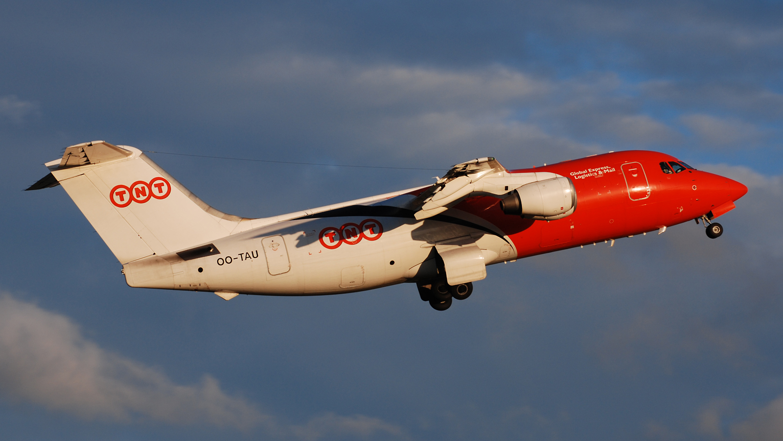 TNT Airways British Aerospace BAe 146-200QT